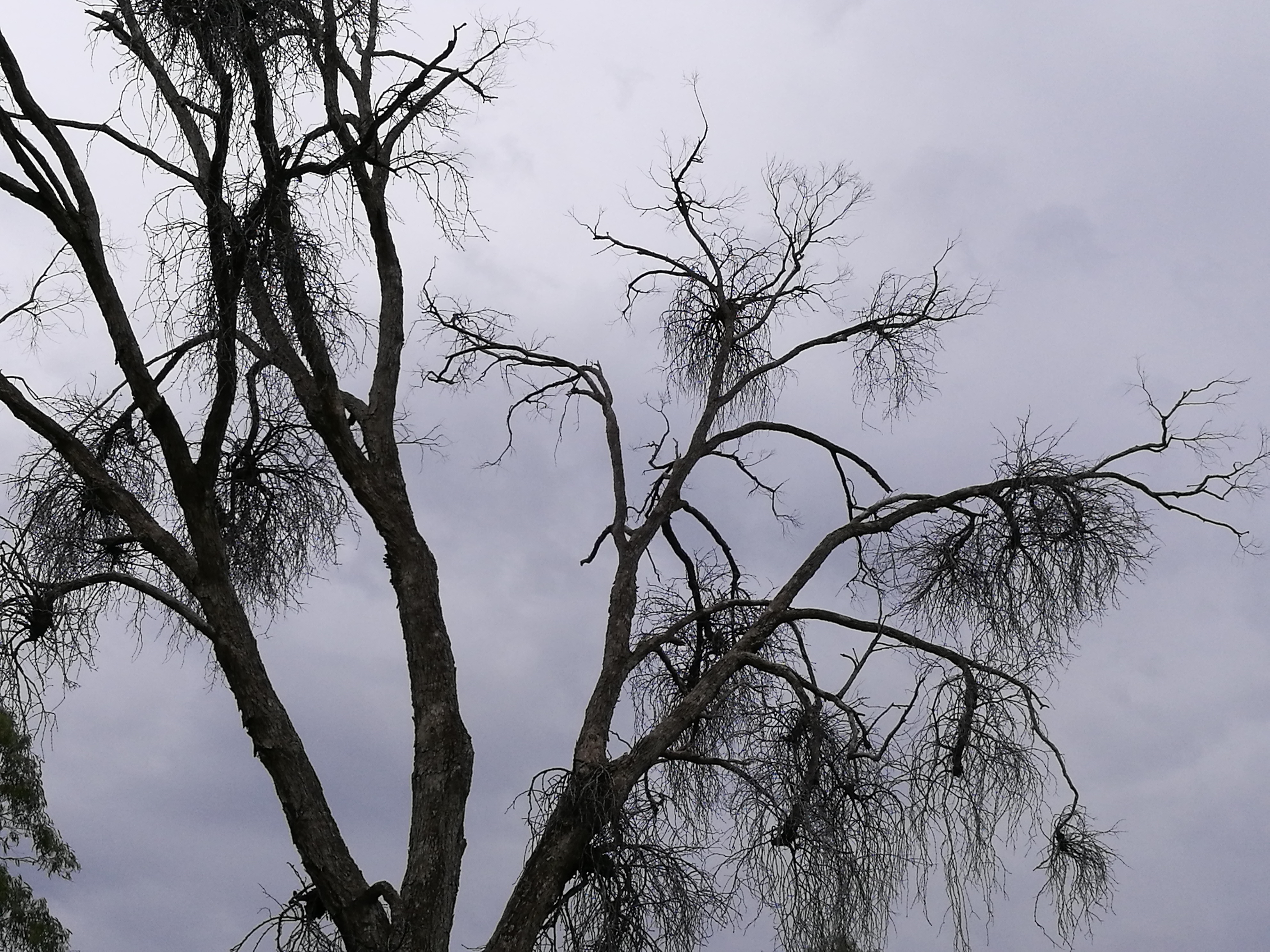 Multiple mistletoe infestations, multiple haustoria. (Dead mistletoes, dead gum). Narrabri-Bingara Road, NSW